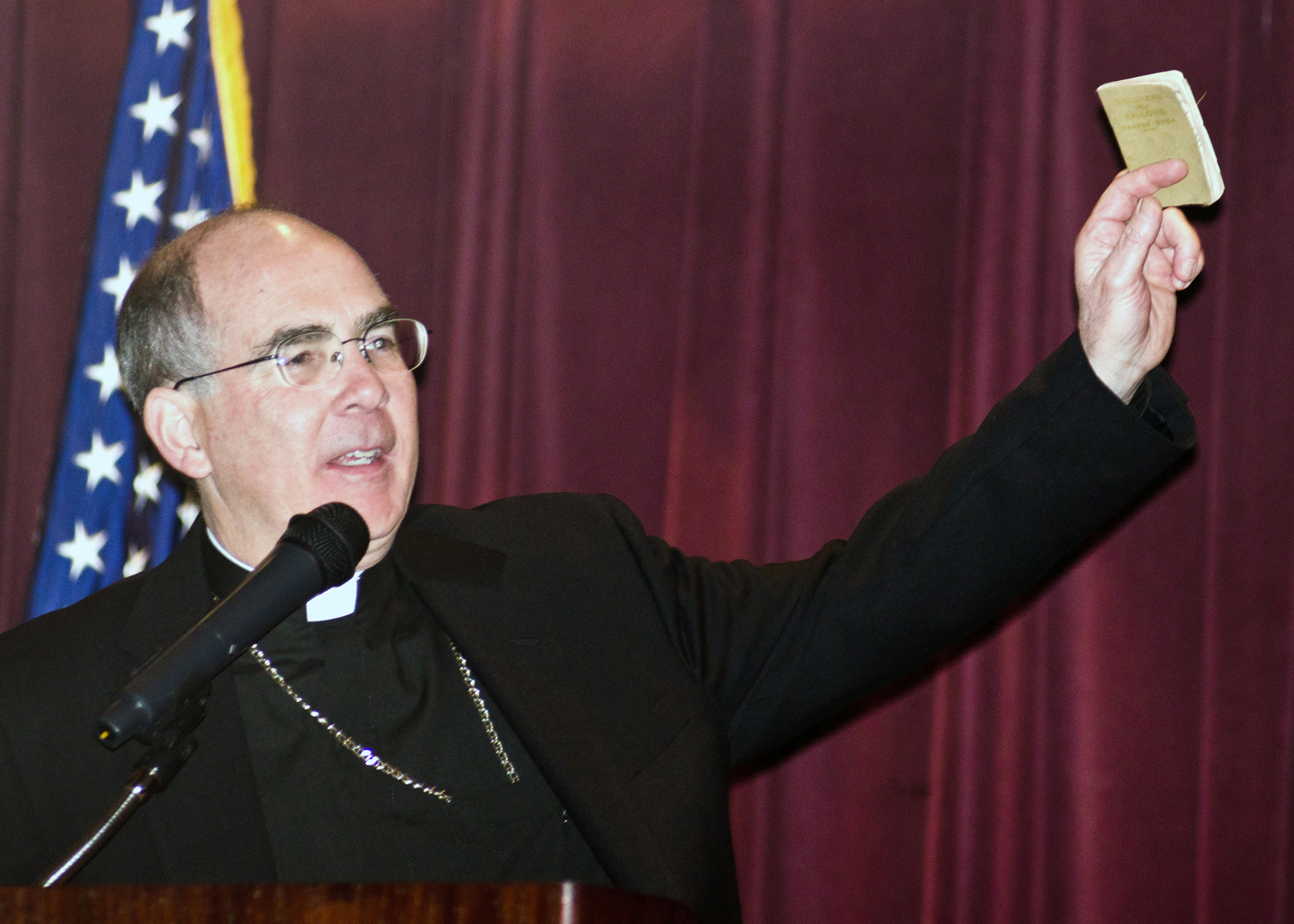 JOINT BASE LEWIS-MCCHORD, Wash. (February, 2012) Archbishop Peter Sartain, Archbishop of Seattle, raises a Soldiers' and Sailors' Prayer Book while speaking at JBLM, Feb. 1. The book was inherited from his father, who received it while serving aboard USS Indus (AKN-1,) a net cargo ship, during World War II. Sartain joined the JBLM worship community for their National Prayer Breakfast at JBLM McChord Field. Photo by David Poe, Northwest Guardian.